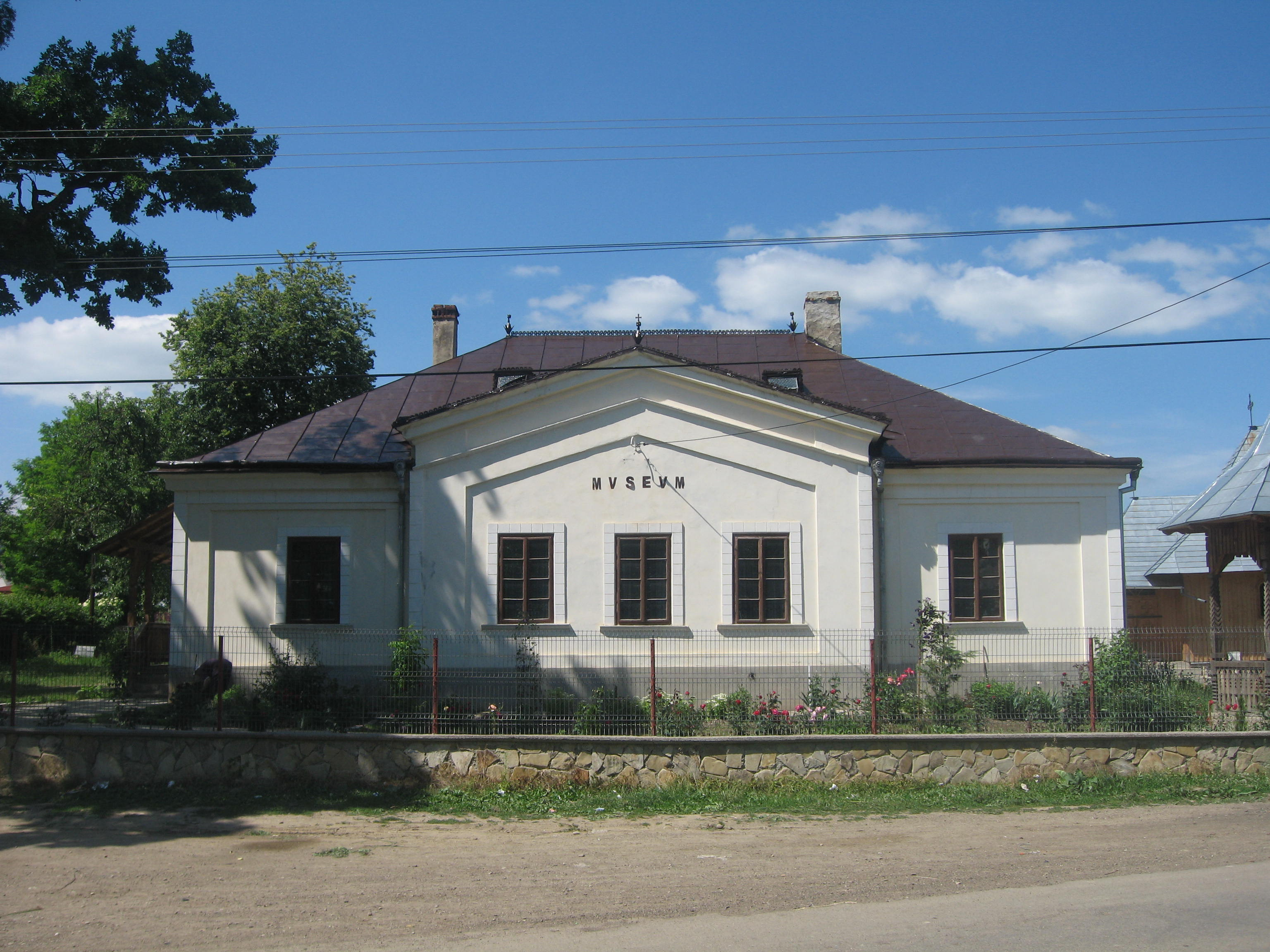 The Church of Pătrăuţi, Romania, UNESCO monument